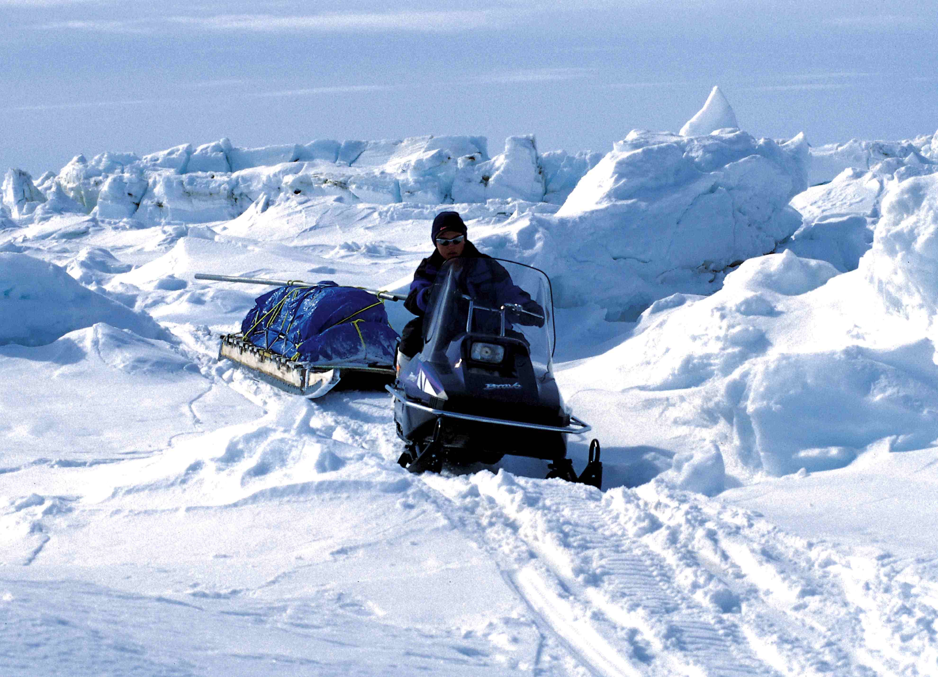 Journey in springtime